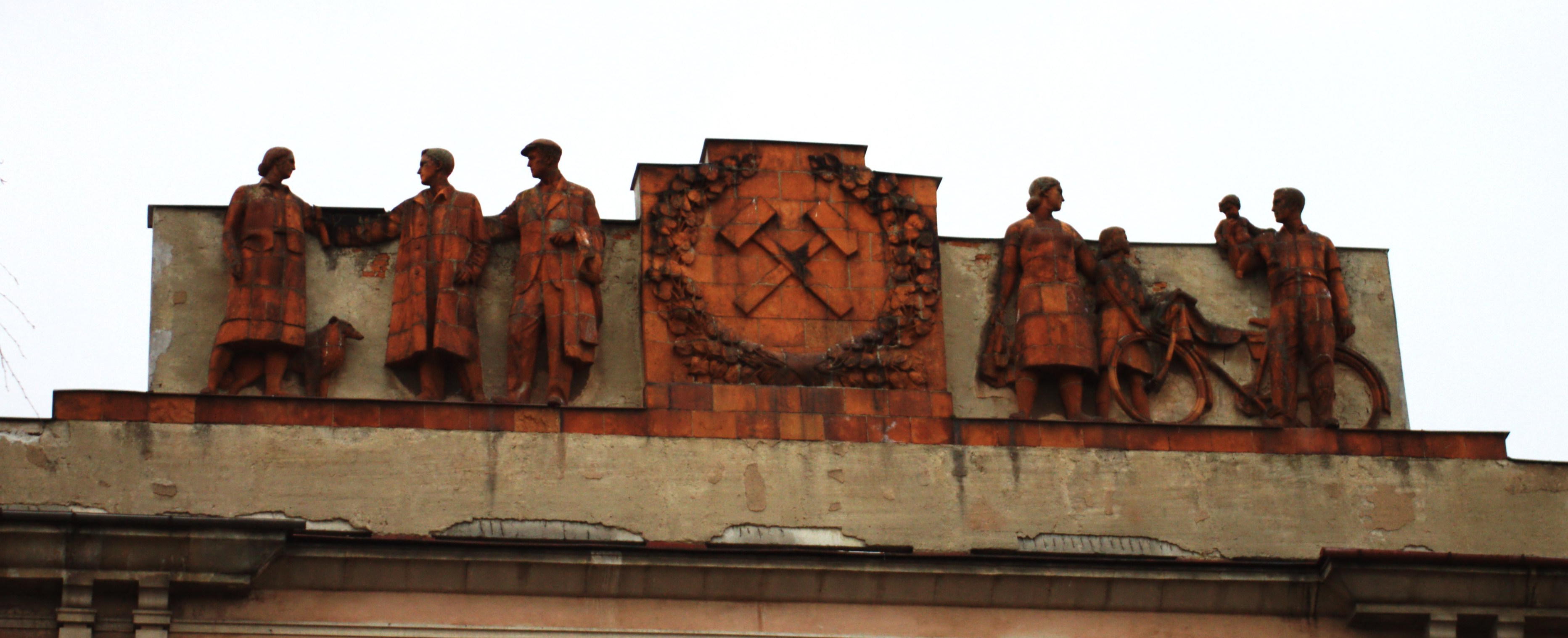 A socialist realism styled relief depicting workers or miners atop of the Oblouk building in Ostrava, Poruba, CZ